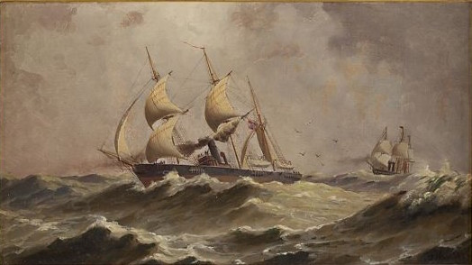 CSS Alabama escaping from a Federal frigate. Signed at lower right "F. Muller"